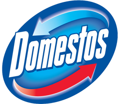 Domestos logo